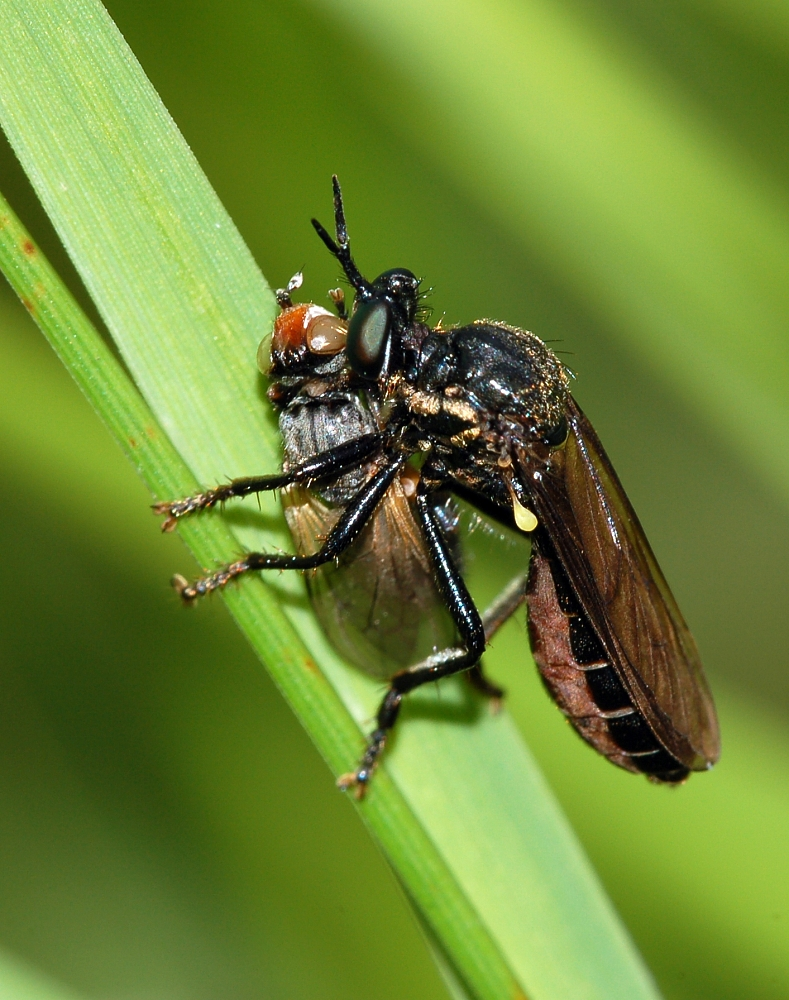 Dioctria atricapilla, Röblingen near Halle/Saale, Germany